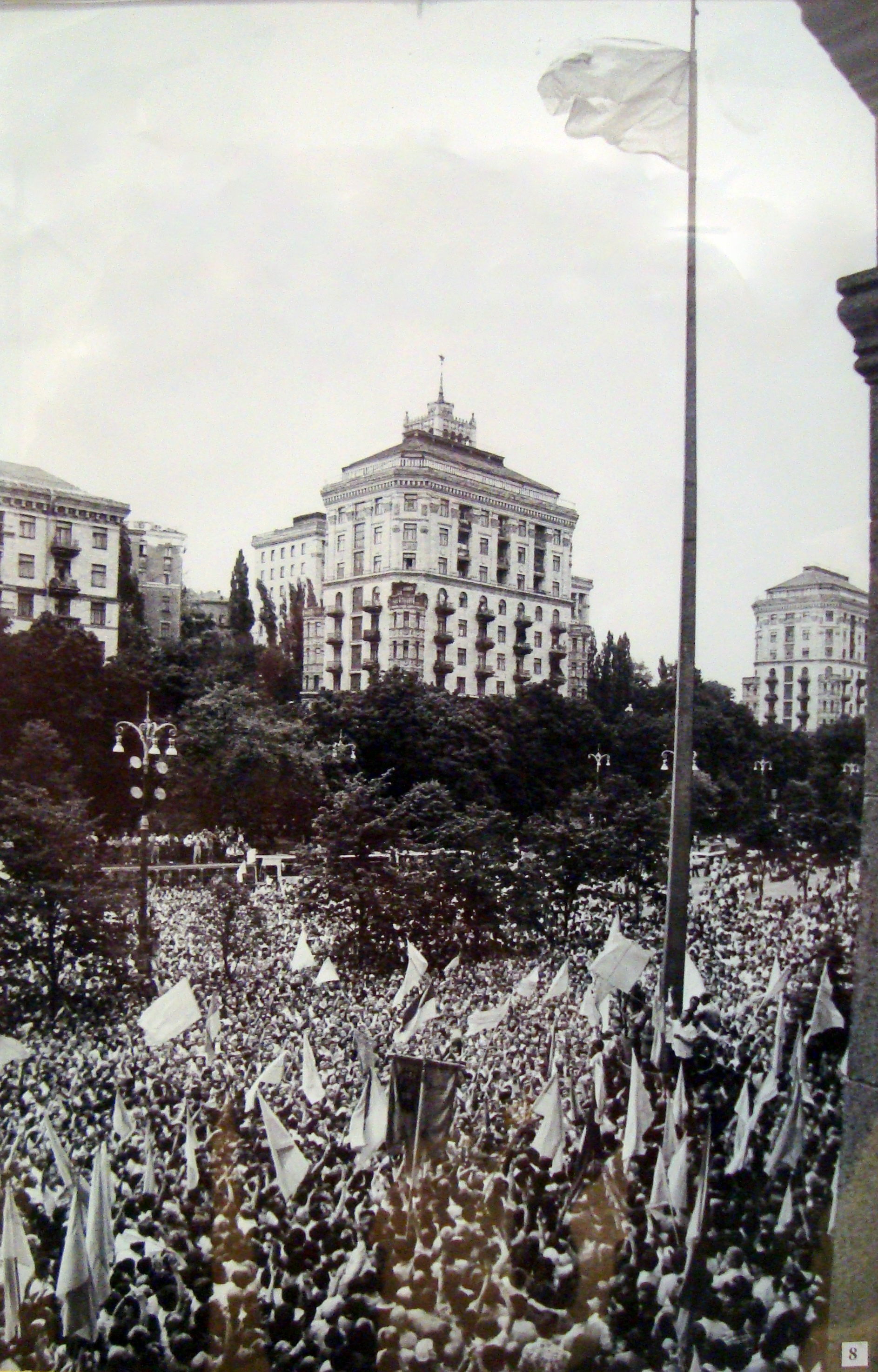 The occasion of the raising of the Ukrainian flag outside Kiev's city hall on 24. July 1990 (during the decline of the USSR)